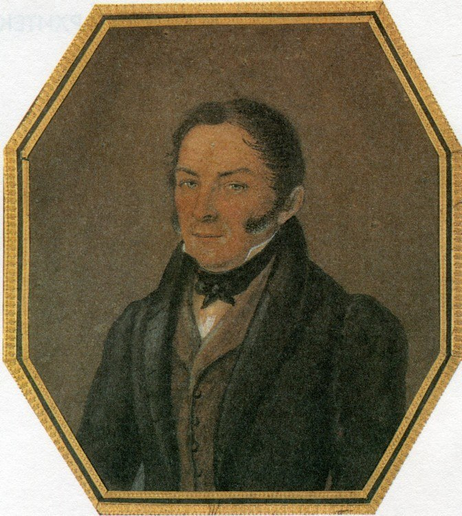 Bove Osip Ivanovich, 18?? year